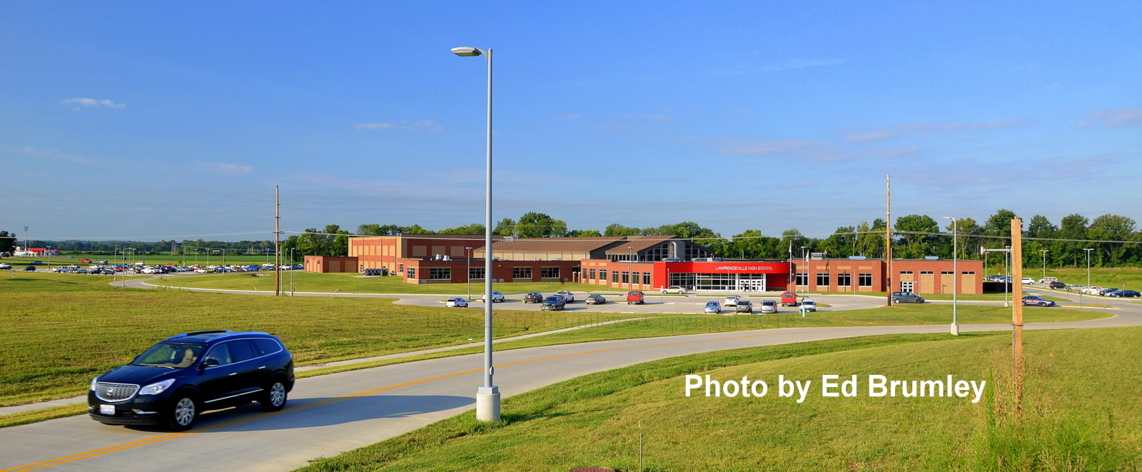 The New Lawrenceville High School, which is located on the West side of Lawrenceville, Illinois, started in August 2013.